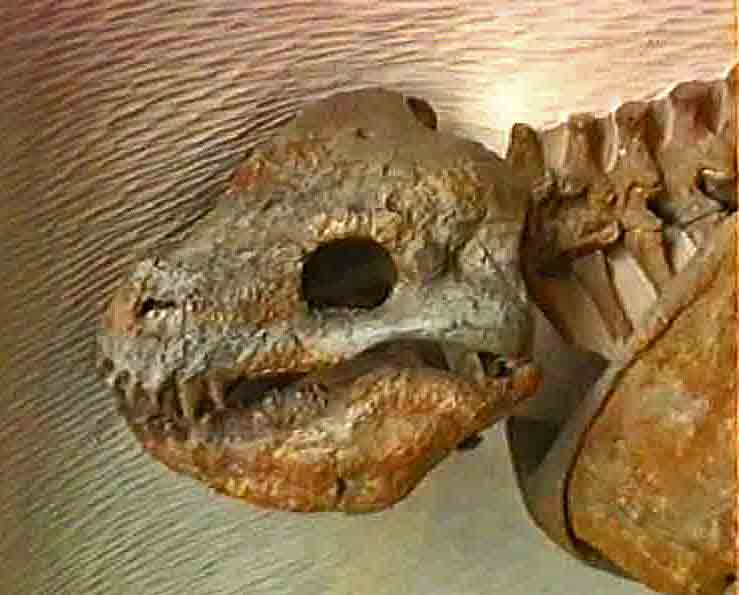 Fossil of Diadectes tenuitecus at the Harvard Museum - Boston